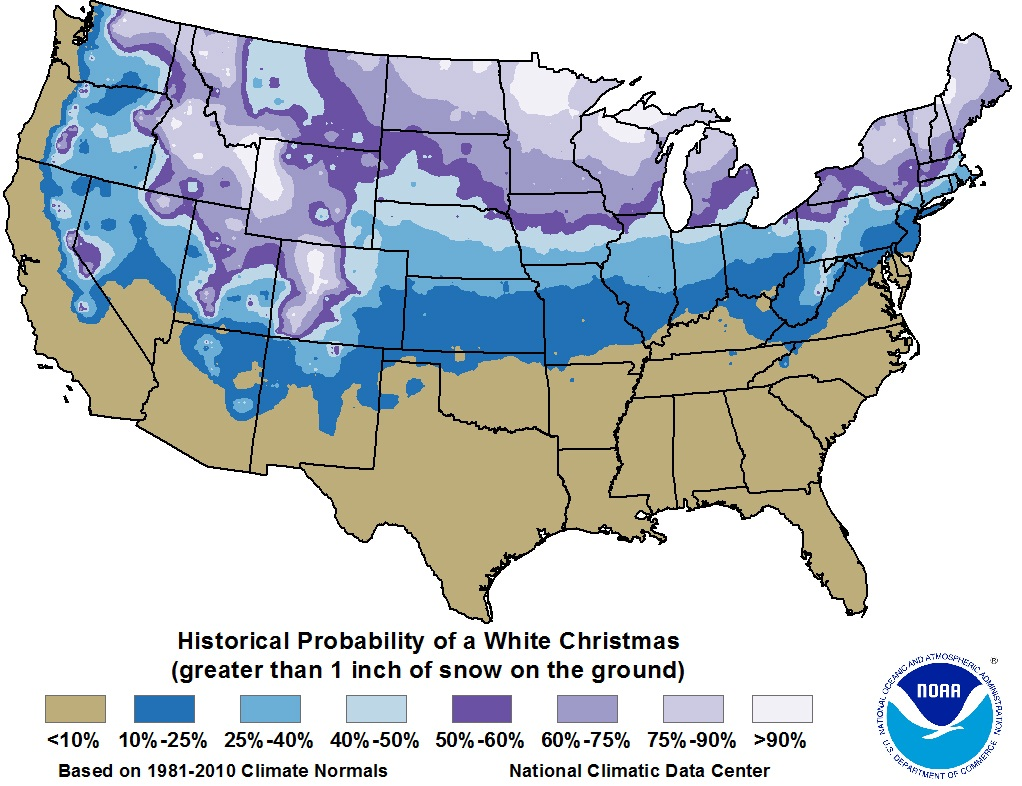 Map of the Lower 48 States showing the probability of a white Christmas. based on weather data from 1981-2010.